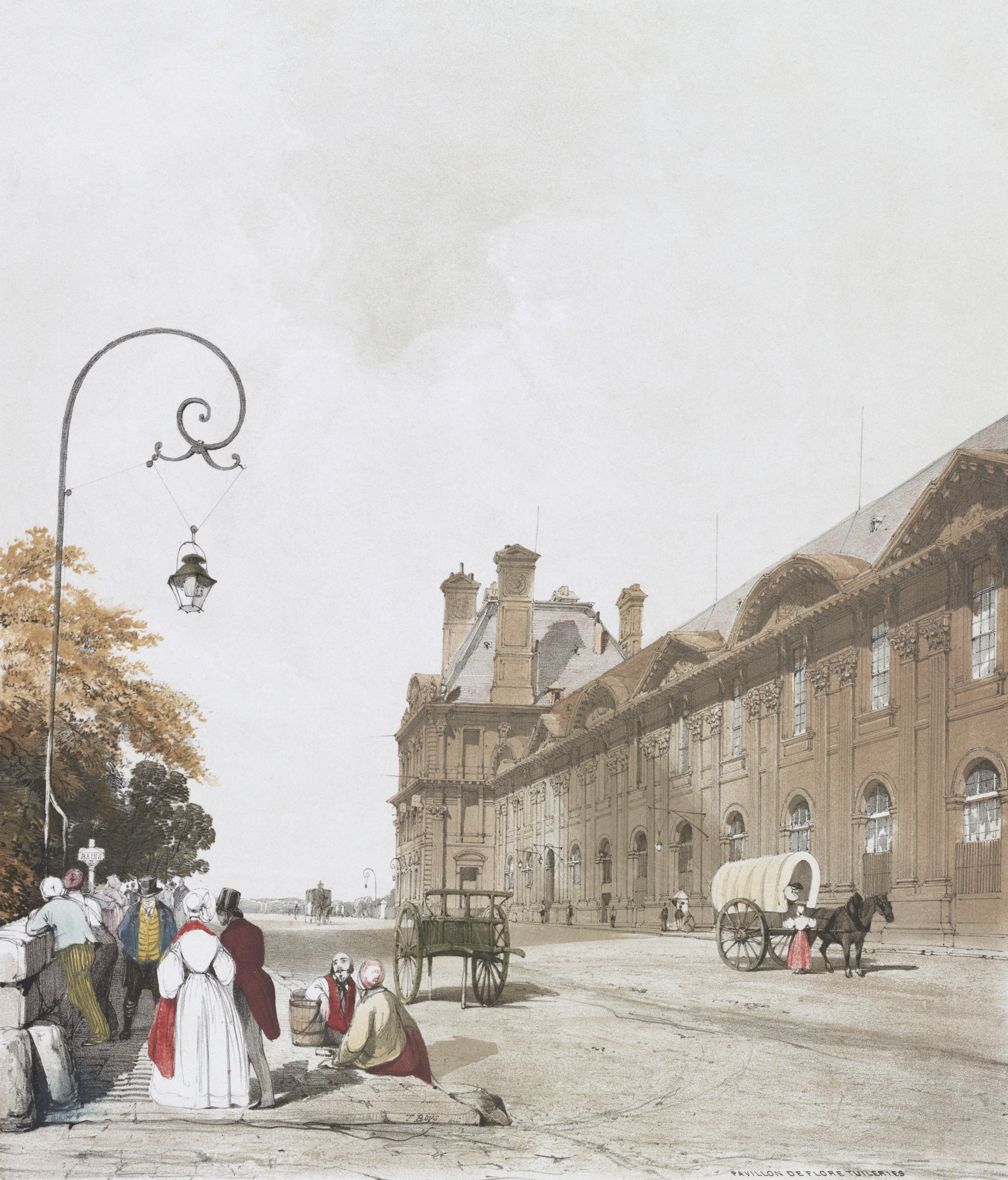 Pavillon de Flore. Colour lithograph by Thomas Shotter Boys (1803-1874).